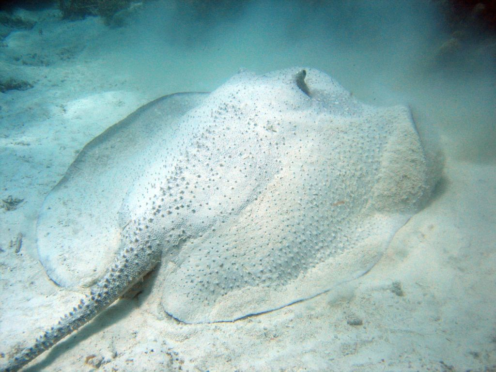 Porcupine ray (Urogymnus asperrimus) in the Seychelles.